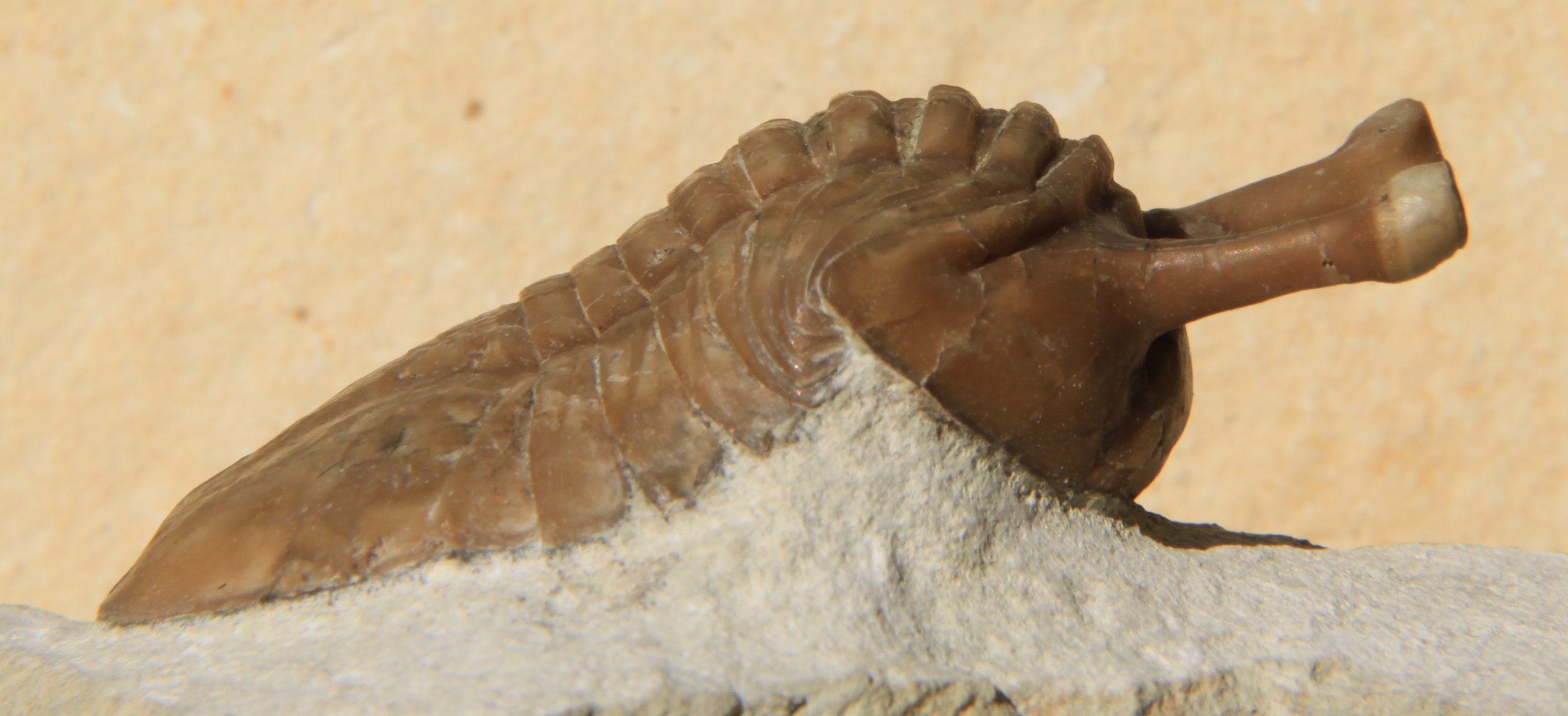 The trilobite Asaphus kowalewskii, Order Asaphida, Family Asaphidae, 53mm along the axis, lateral view from the right, found at the Vilpovitsky Quarry near Petrograd, Russian Republic, from the Middle Ordovician